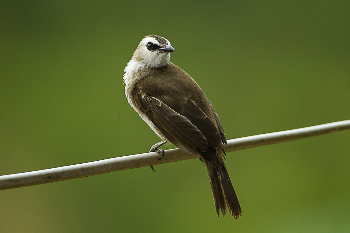 Yellow-vented Bulbul - Thailand_S4E3741